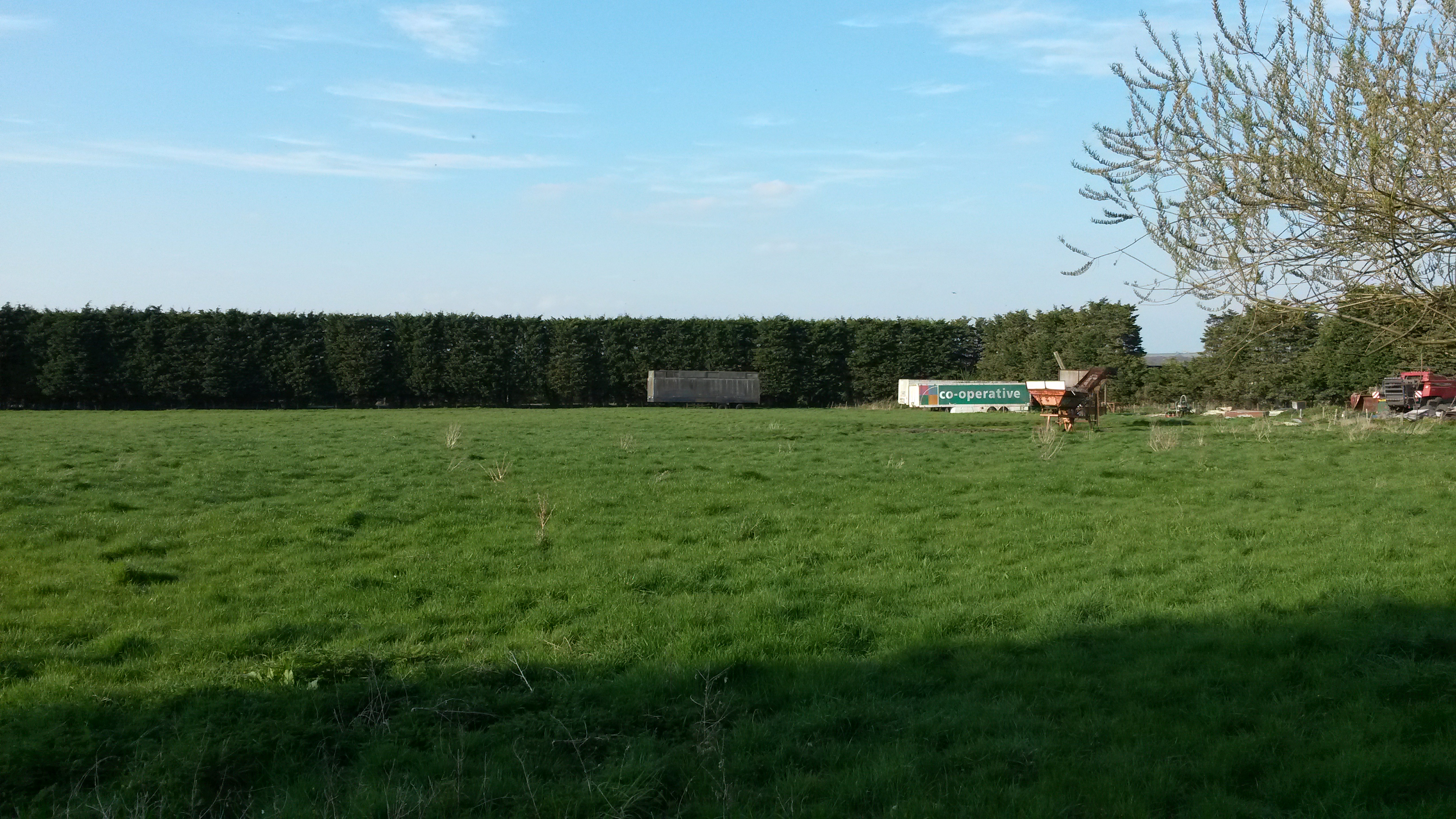 Site of the medieval settlement of Skellingthorpe. Outlines of the old fishponds may still be perceived in this field near Ferry Lane.